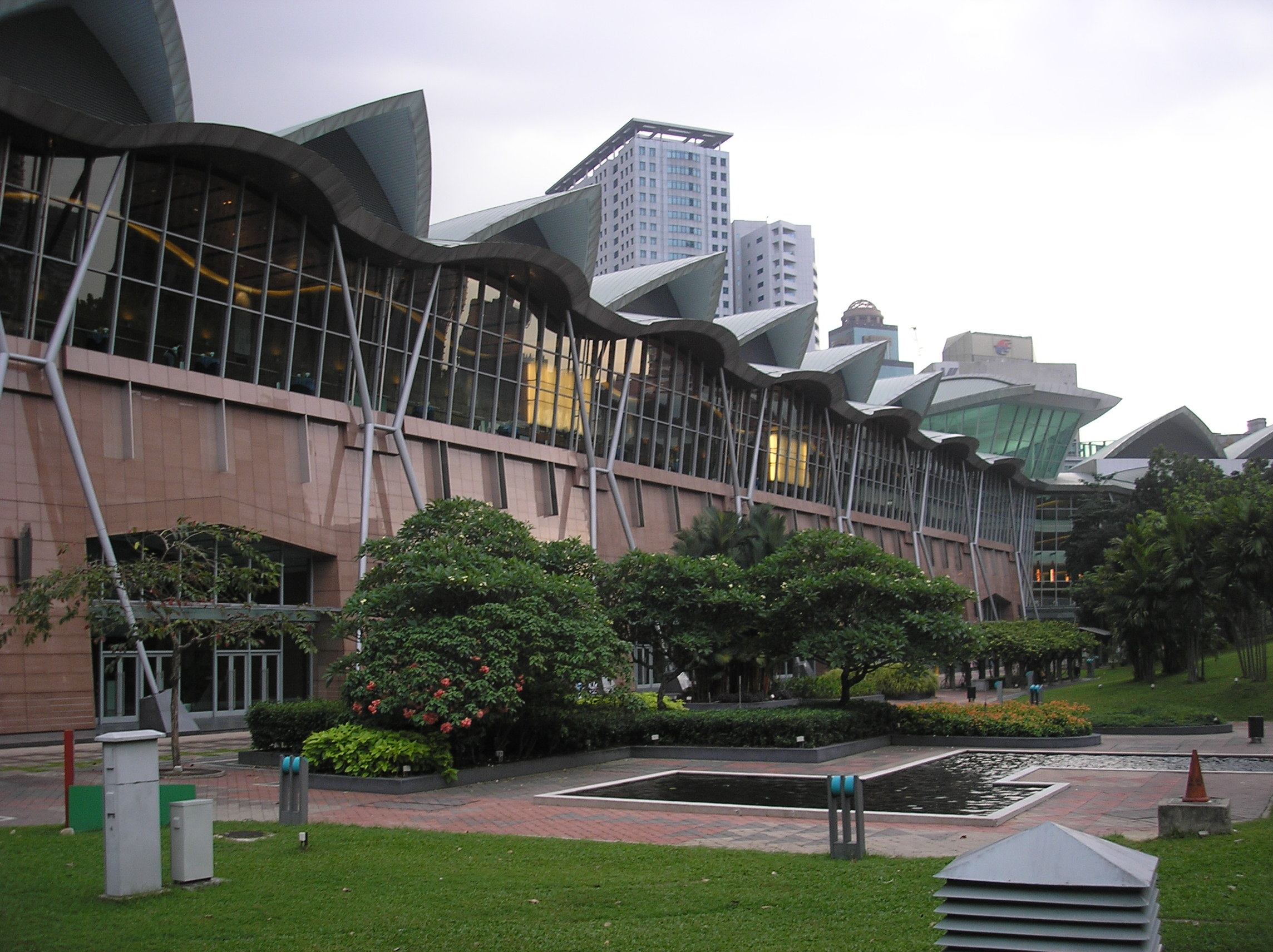 The northeastern facade of the Kuala Lumpur Convention Centre, facing KLCC Park in Kuala Lumpur, Malaysia.